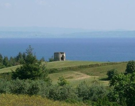 An old windmill at Pefkochori village, in Chalcidice, Greece